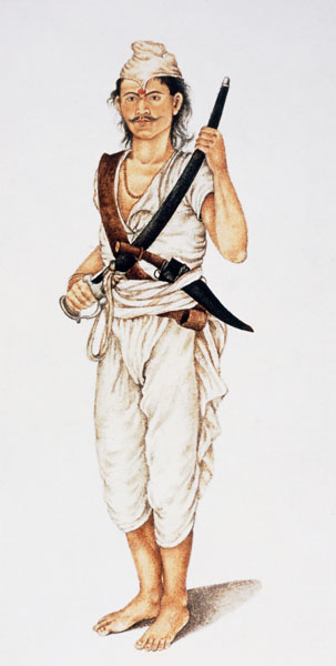 Gurkha infantryman. During the 18th and 19th centuries, the British employed Indian artists to illustrate the manners and customs of India and to record scenes of monuments, deities, festivals, and occupations.This is one such 'Company' painting commissioned by William Fraser in 1815 whilst he was Deputy Resident of Delhi.